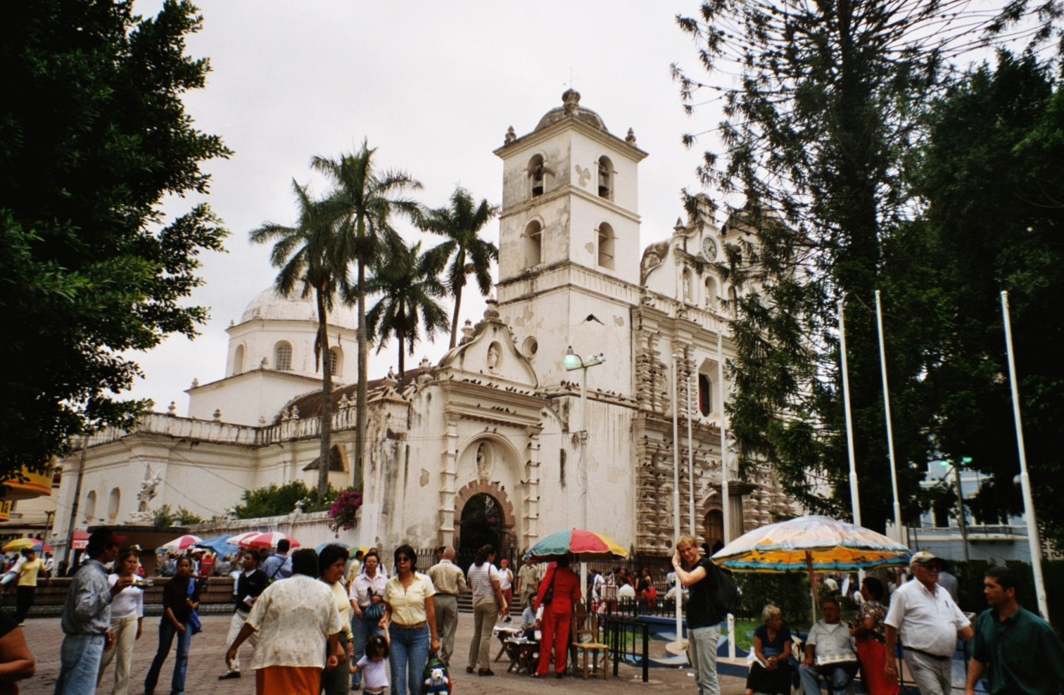 The Tegucigalpa Cathedral — a Spanish colonial period church in Tegucigalpa, Honduras.